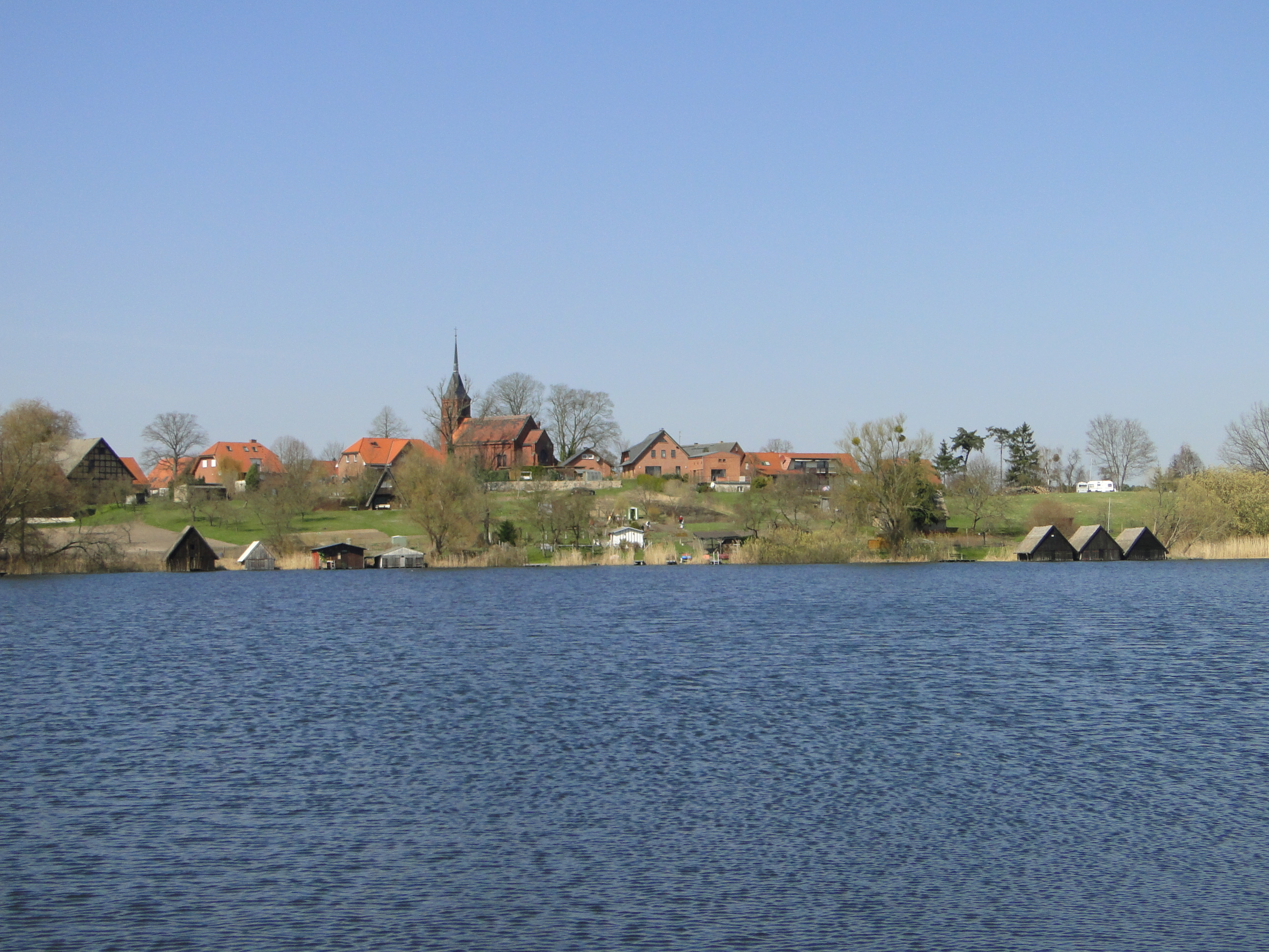 Lake Plätlinsee in Wustrow, disctrict Mecklenburg-Strelitz, Mecklenburg-Vorpommern, Germany